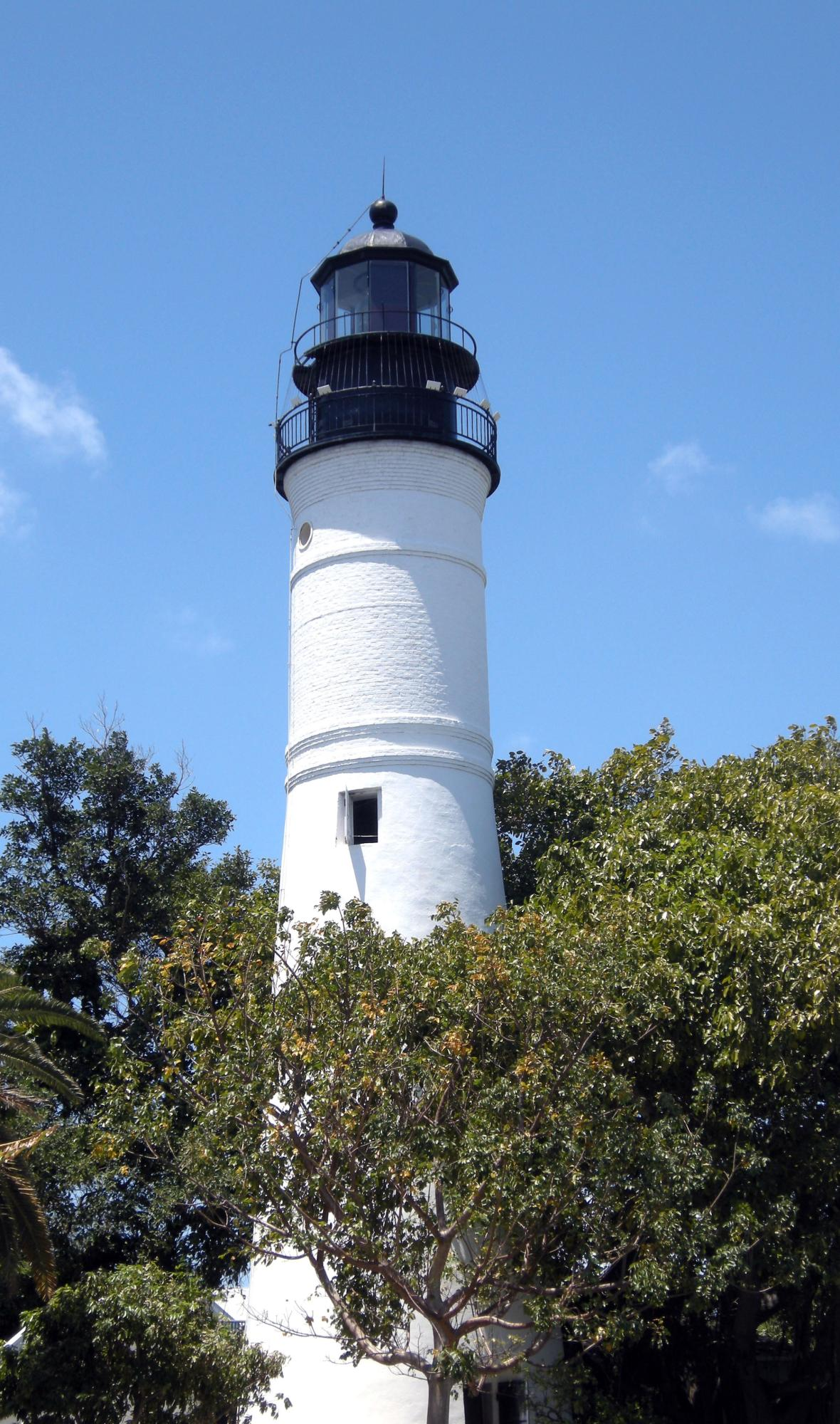 The lighthouse of Key West, Florida